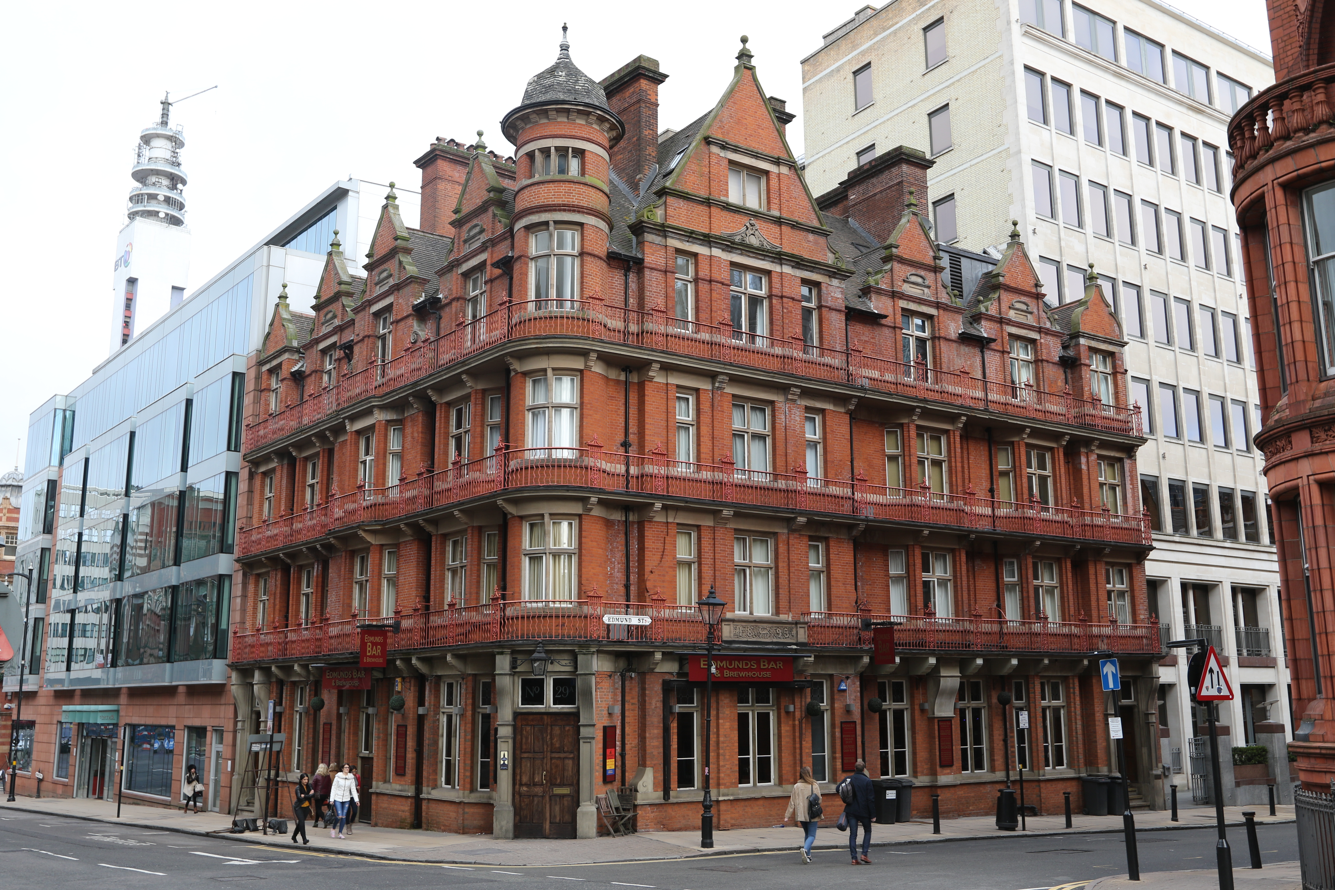 Built 1895 by Frank Barlow Osbourne